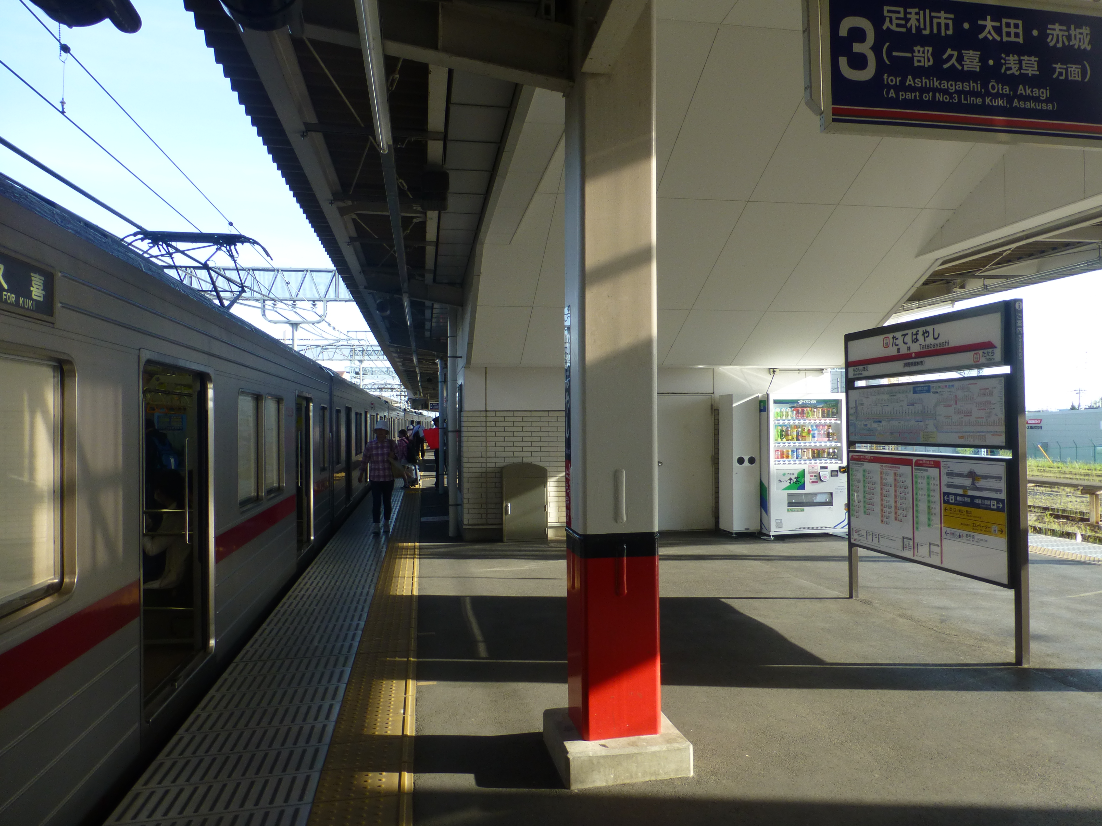 Tatebayashi station (館林駅)